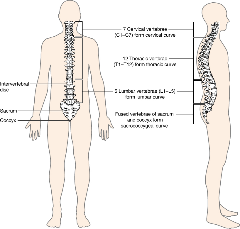 Illustration from Anatomy & Physiology, Connexions Web site. Jun 19, 2013.